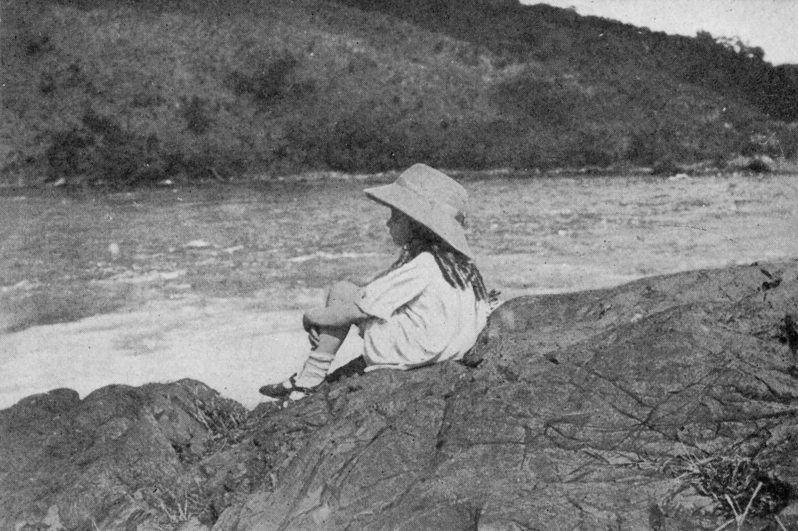 Alice Sheldon at the river